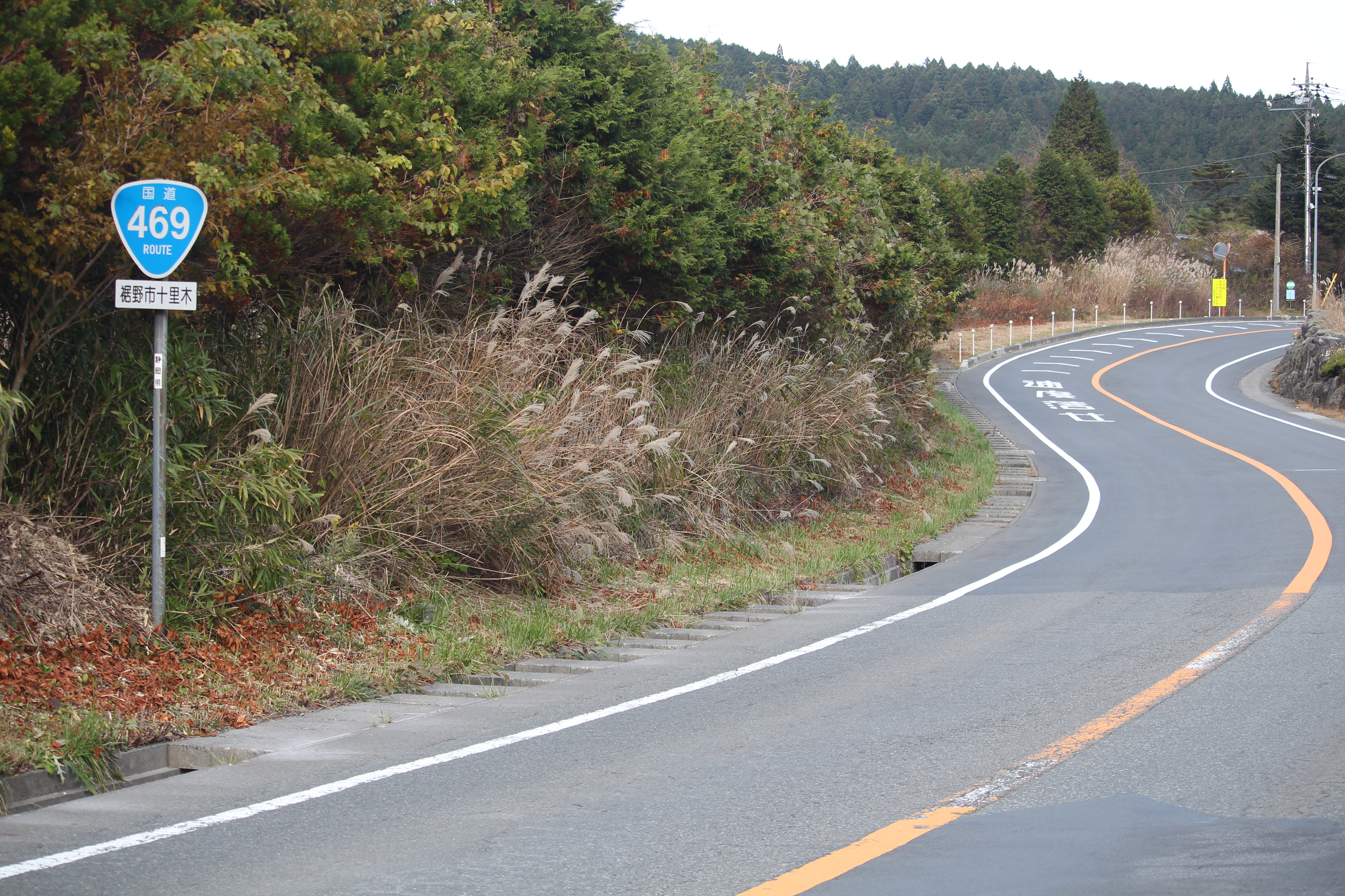 Route 469 in Suyama, Juriki, Shizuoka prefecture, Japan.